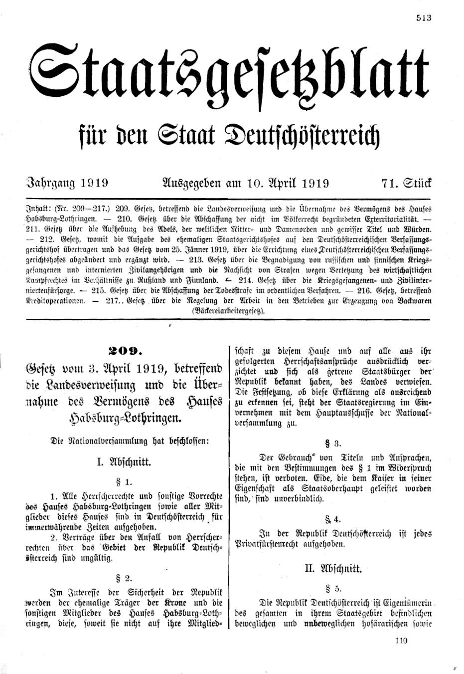 This is a scan of the historical document